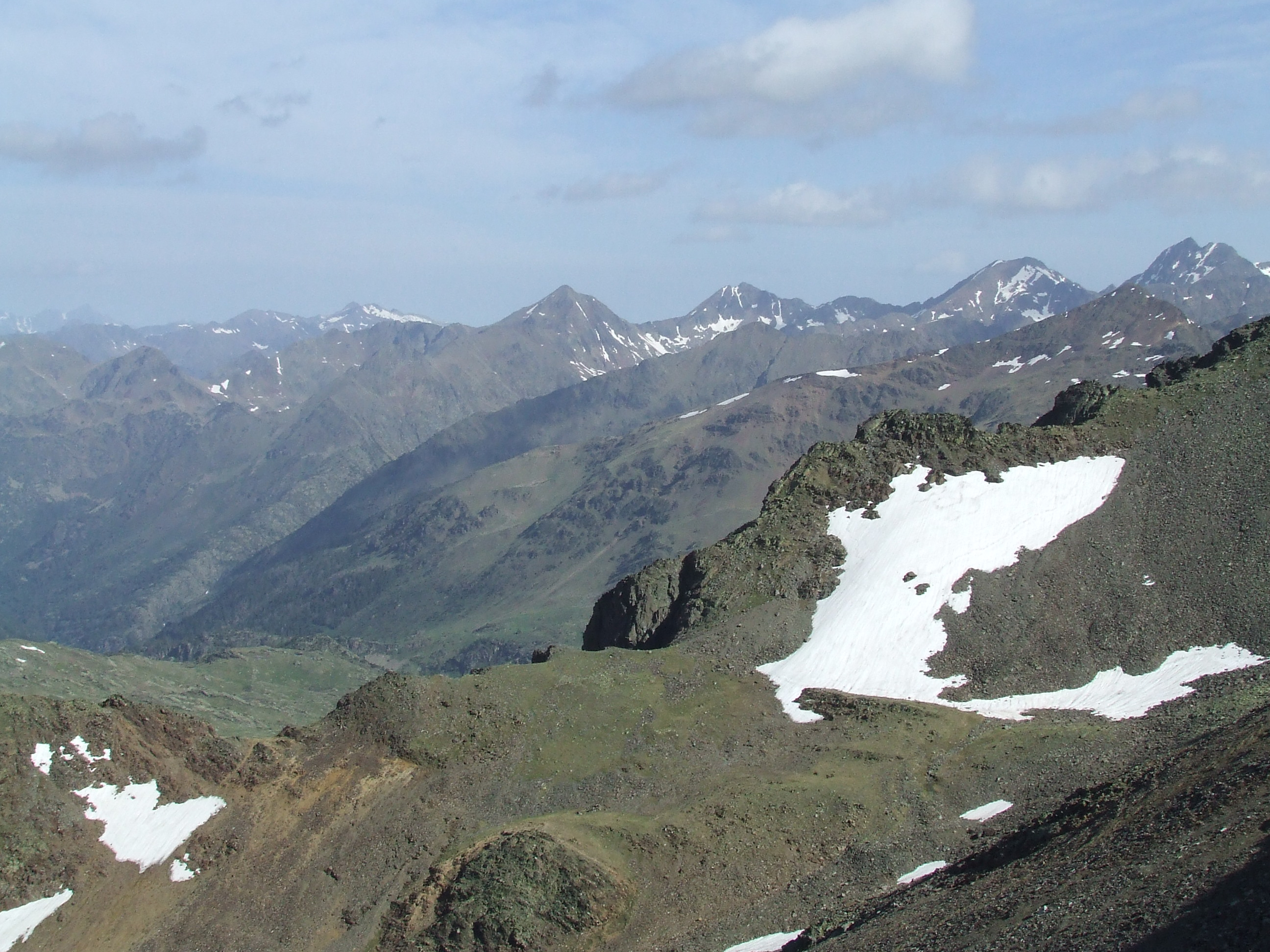 Looking northwest over Portella de Baiau, Spain and France from the slopes of Coma Pedrosa (2942 m), Andorra's highest mountain. To the centre and left is Spain, and to the right is France. The nearest peaks on the right of the valley are on the Spain–France border; from right to left: Roca Entravessada (2927 m), Pic de Medacorba (2914 m), Pic del Lavans (2886 m), Port de Boet (2509 m) and Pica Roja (2902 m). Pica d'Estats (3143 m), the highest mountain in Catalonia, may be seen in the distant background.